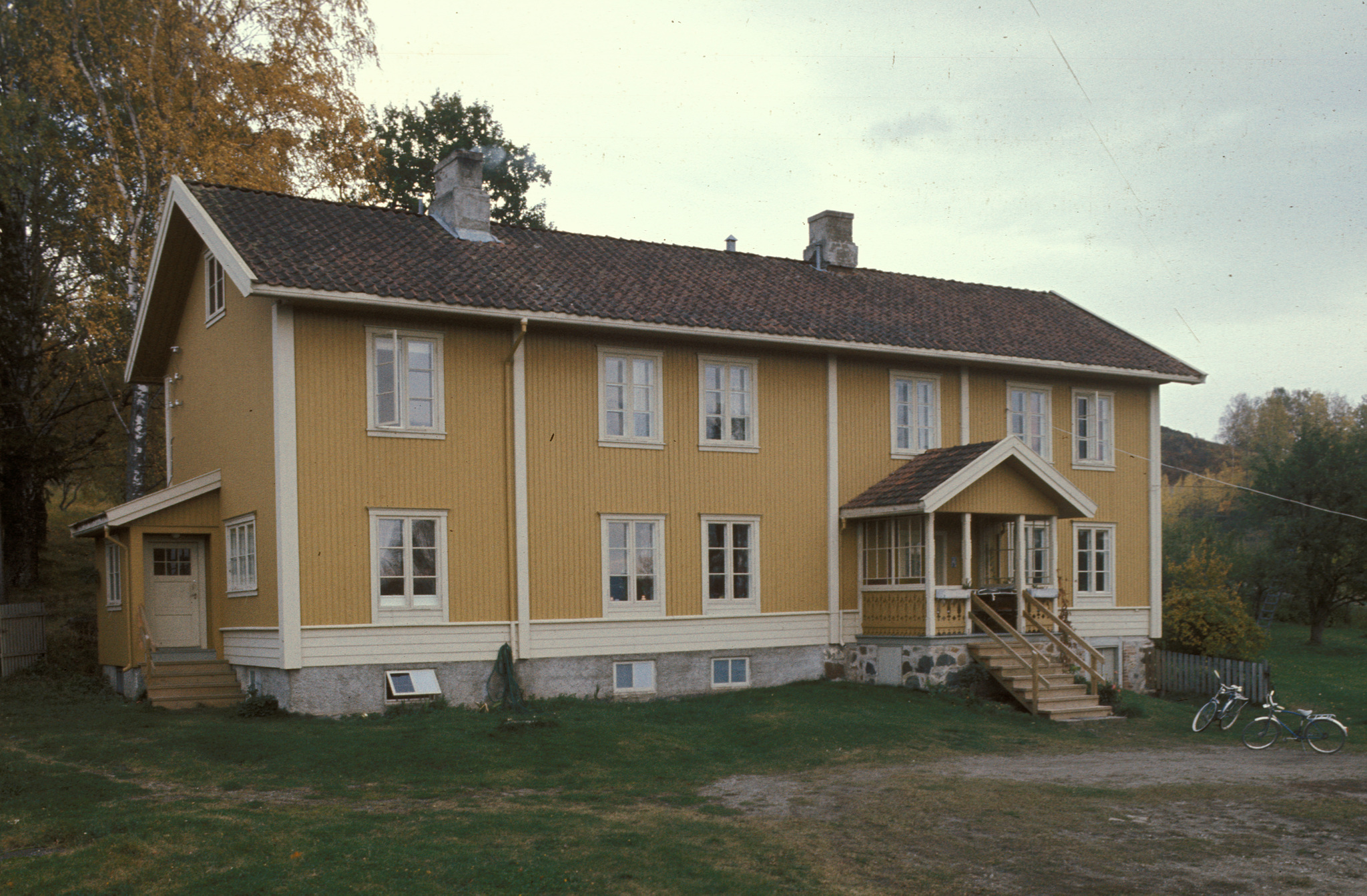 Hovedbygningen på Brandbu prestegård. Foto: Ina Backer, fra Kulturminnebilder.no.